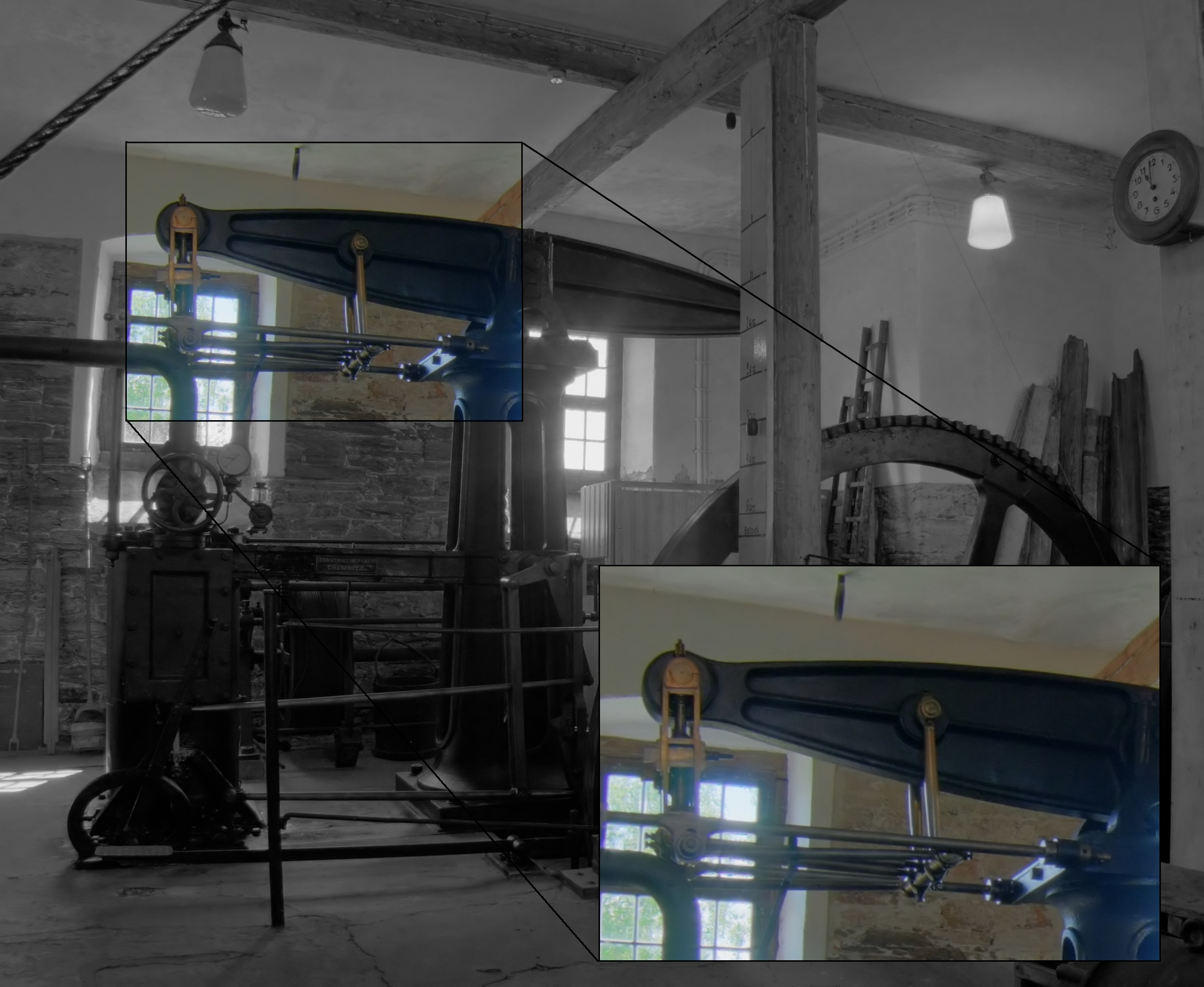 Parallel motion on a pumping engine on display in a silver mine in Freiberg (Germany).